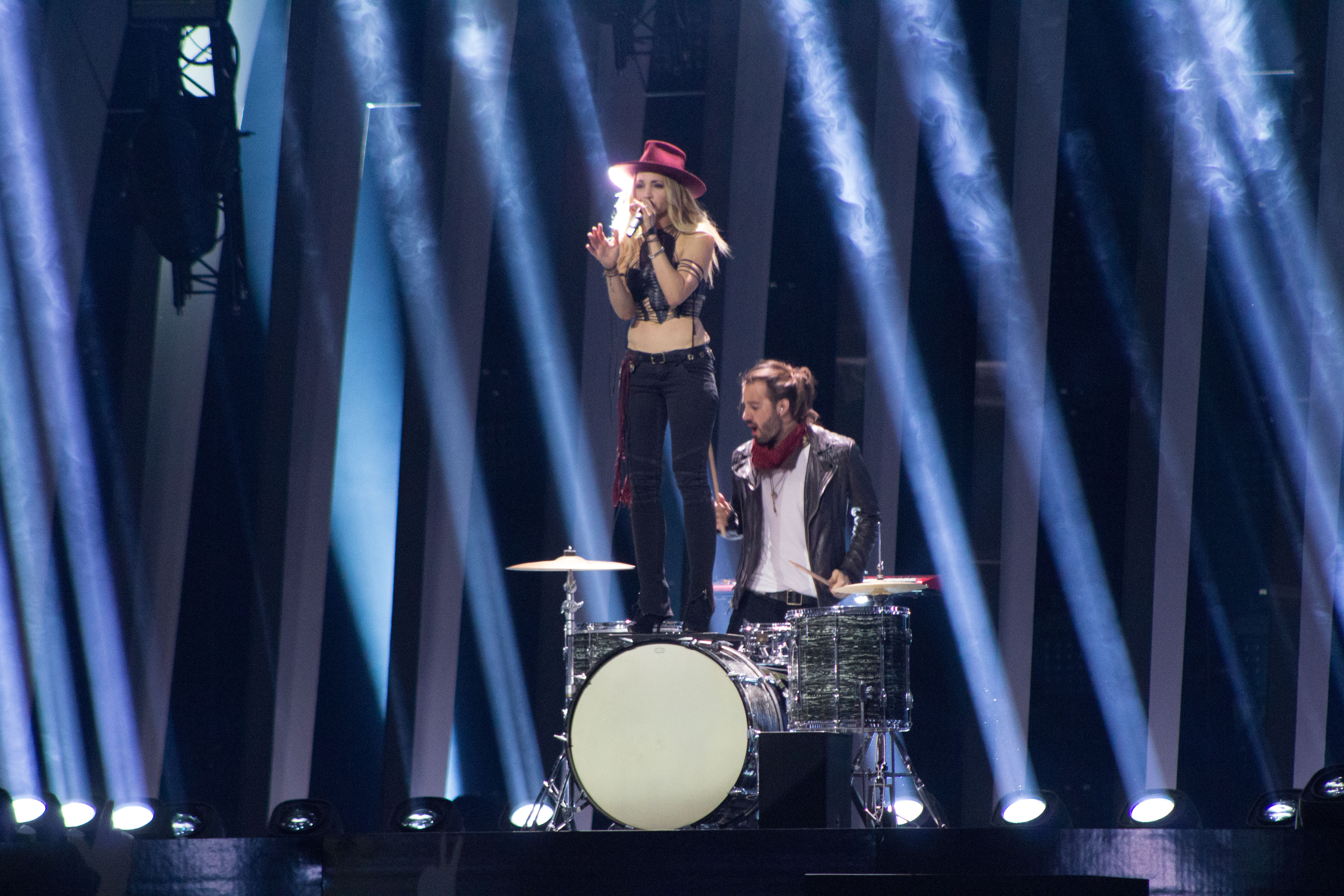 ZiBBZ representing Switzerland with the song "Stones" during a rehearsal before the first semi final of the Eurovision Song Contest 2018 in Lisbon.